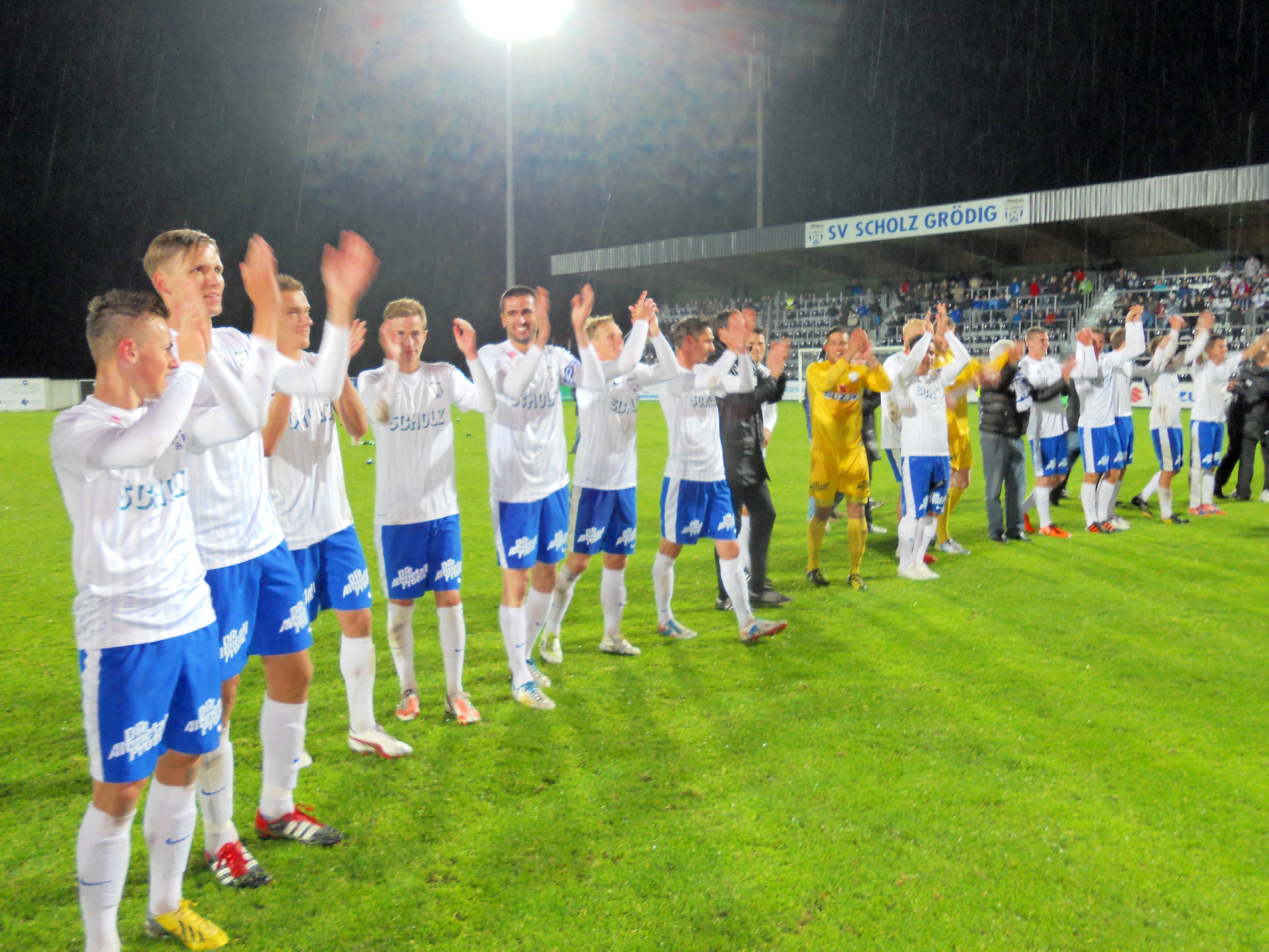 The team of SV Grödig celebrates after the "Erste Liga"-game SV Grödig vs FC Blau-Weiss Linz on 24 May 2013 the promotion into the ‘Bundesliga’ at the Untersberg-Arena